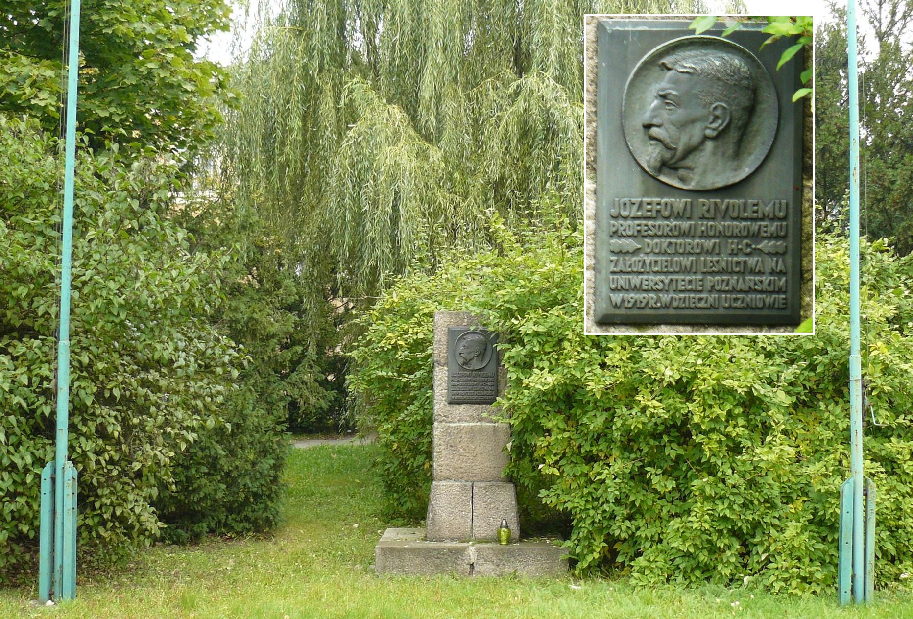 Rivoli Monument, Poznan.